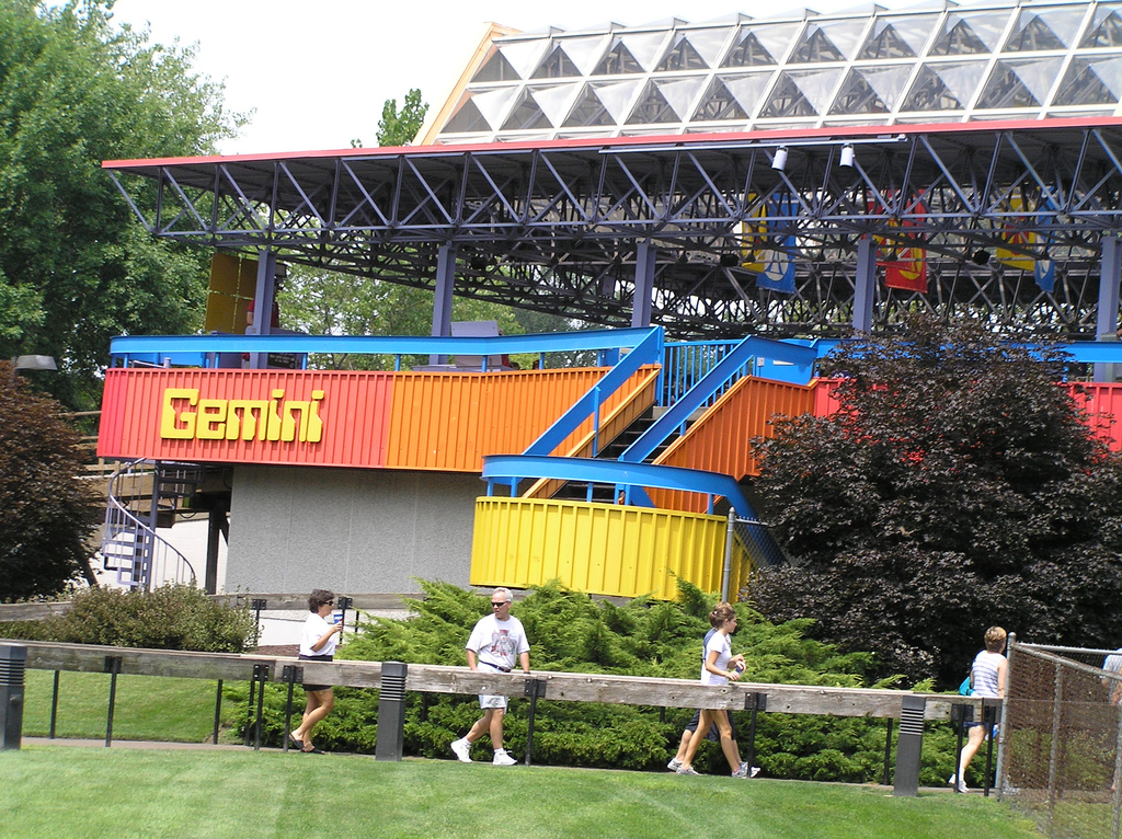 View of Gemini's station at Cedar Point